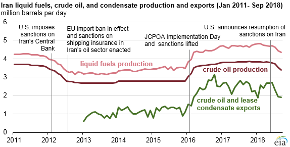 ran's crude oil exports and production have declined since the May 2018 announcement by the United States that it would withdraw from the Joint Comprehensive Plan of Action (JCPOA) and reinstate sanctions against Iran. October 23, 2018